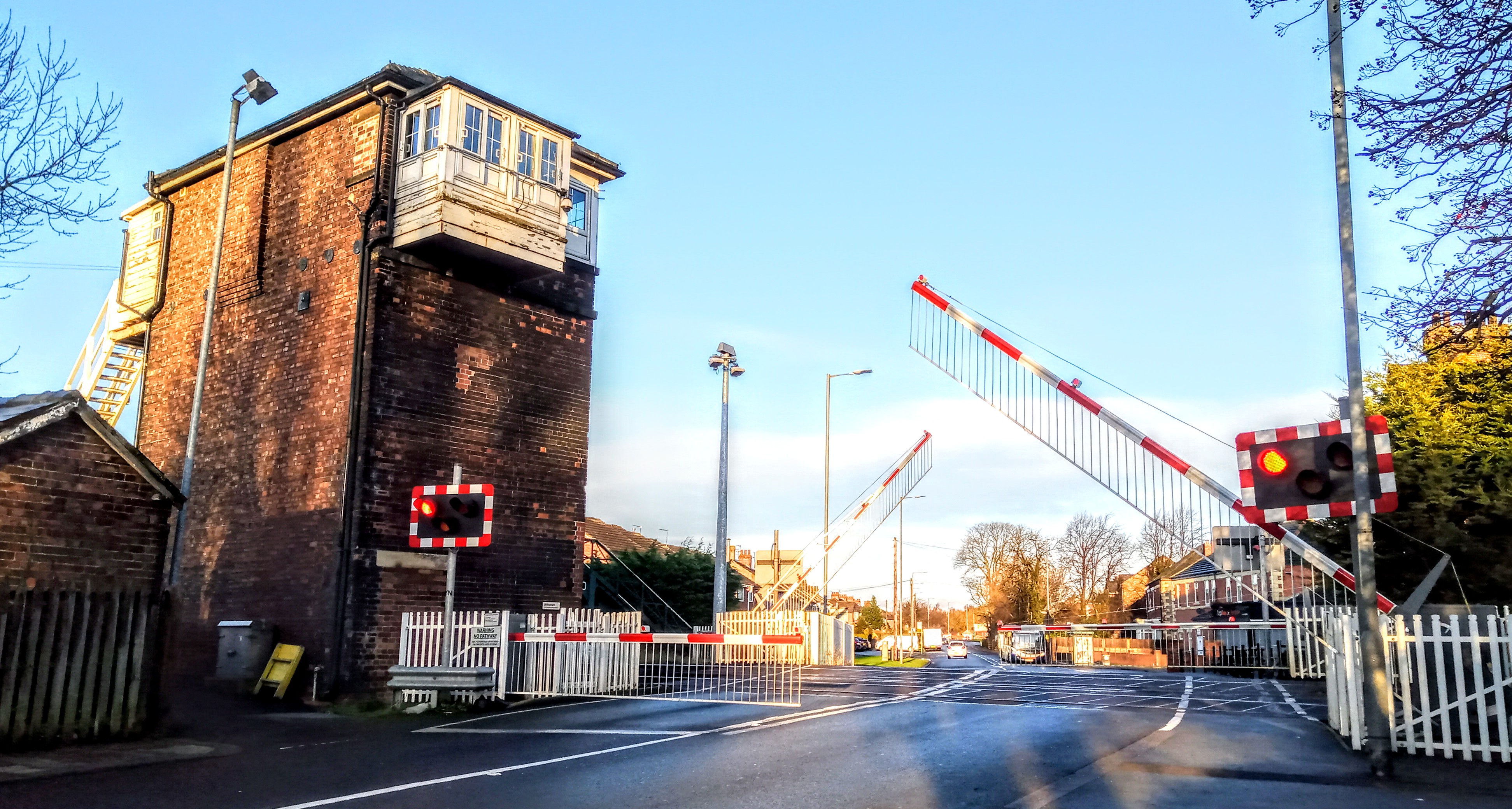 Billingham